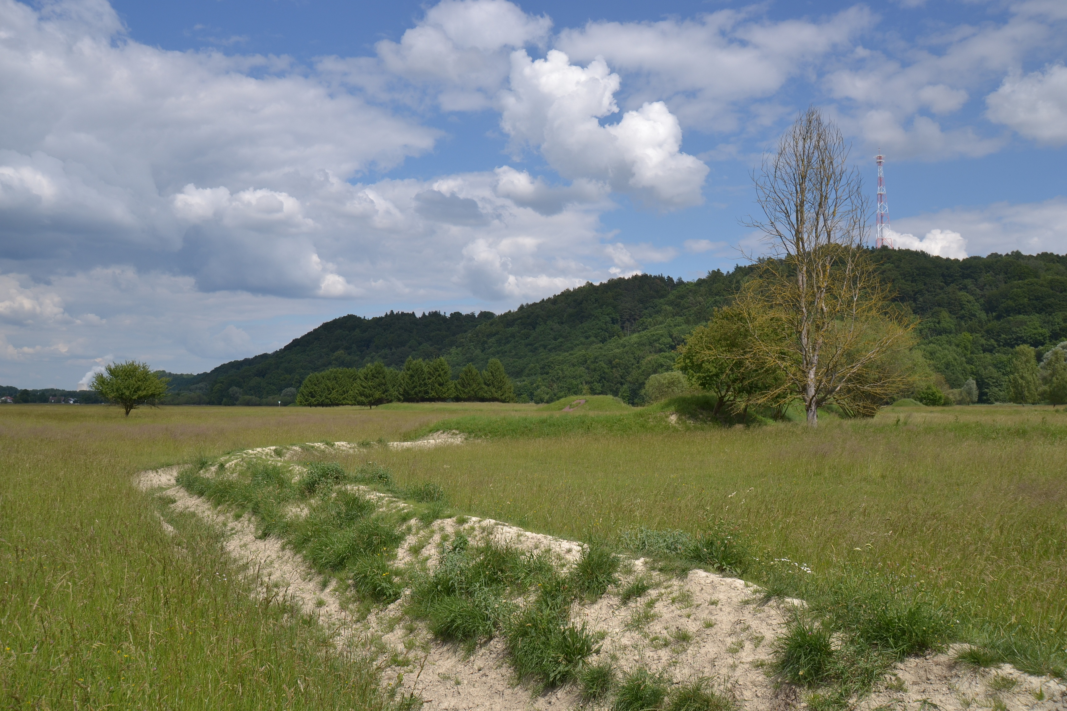 In the nature reserve, ramparts have been raised in order to foster plants which are specialized in semi-arid habitats